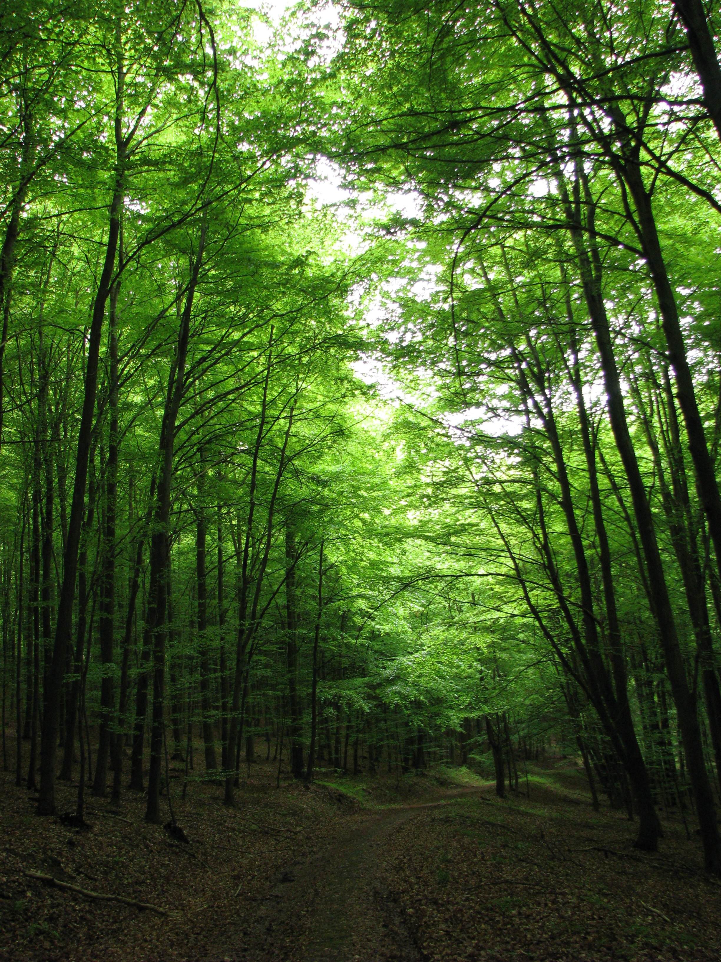 Trail through the beech forest on the Kermeter in the Eifel National Park to the boat pier Kermeterufer of the Rurseeschifffahrt.